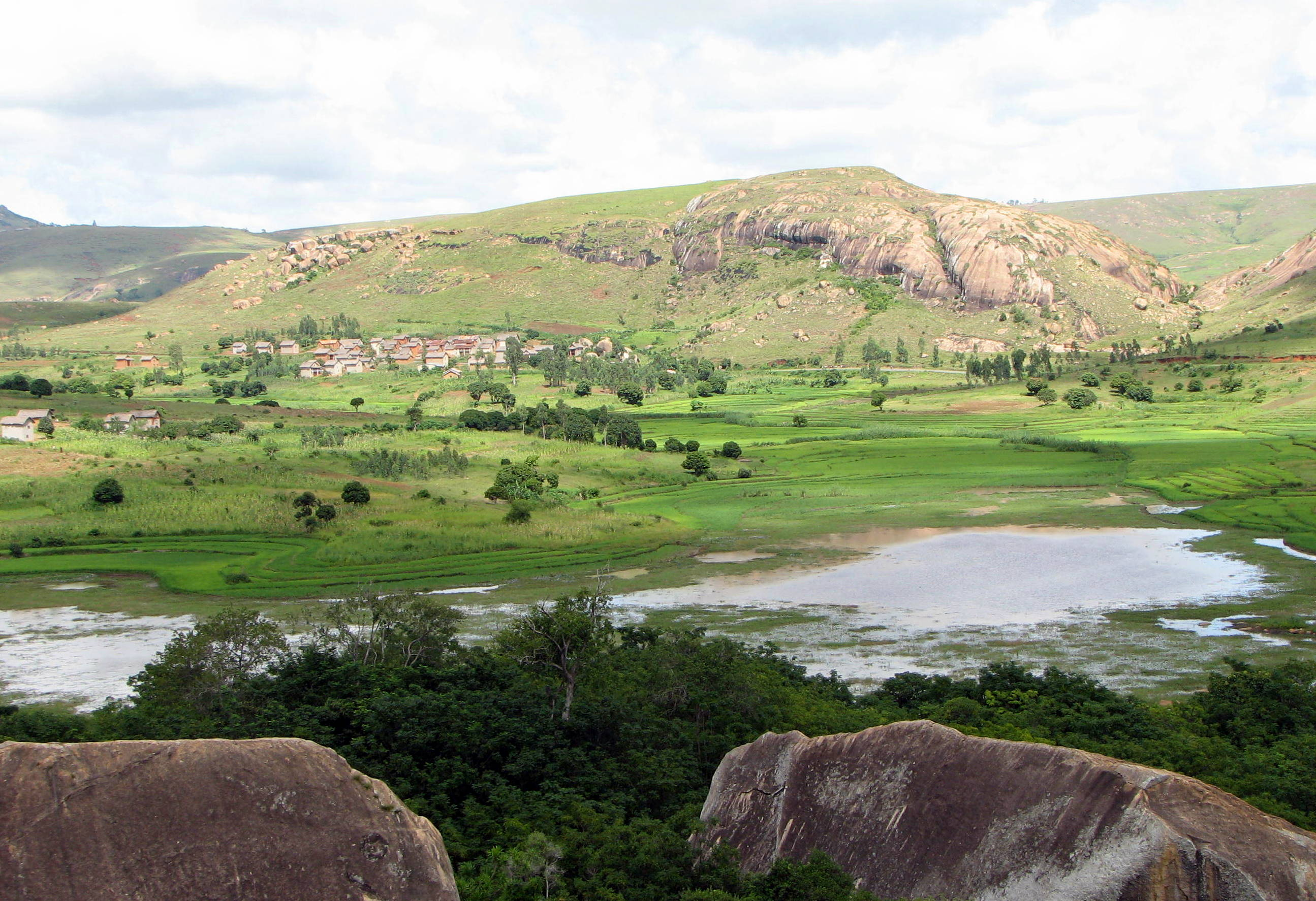 Landscape in Anja Reserve near Ambalavao, Madagascar